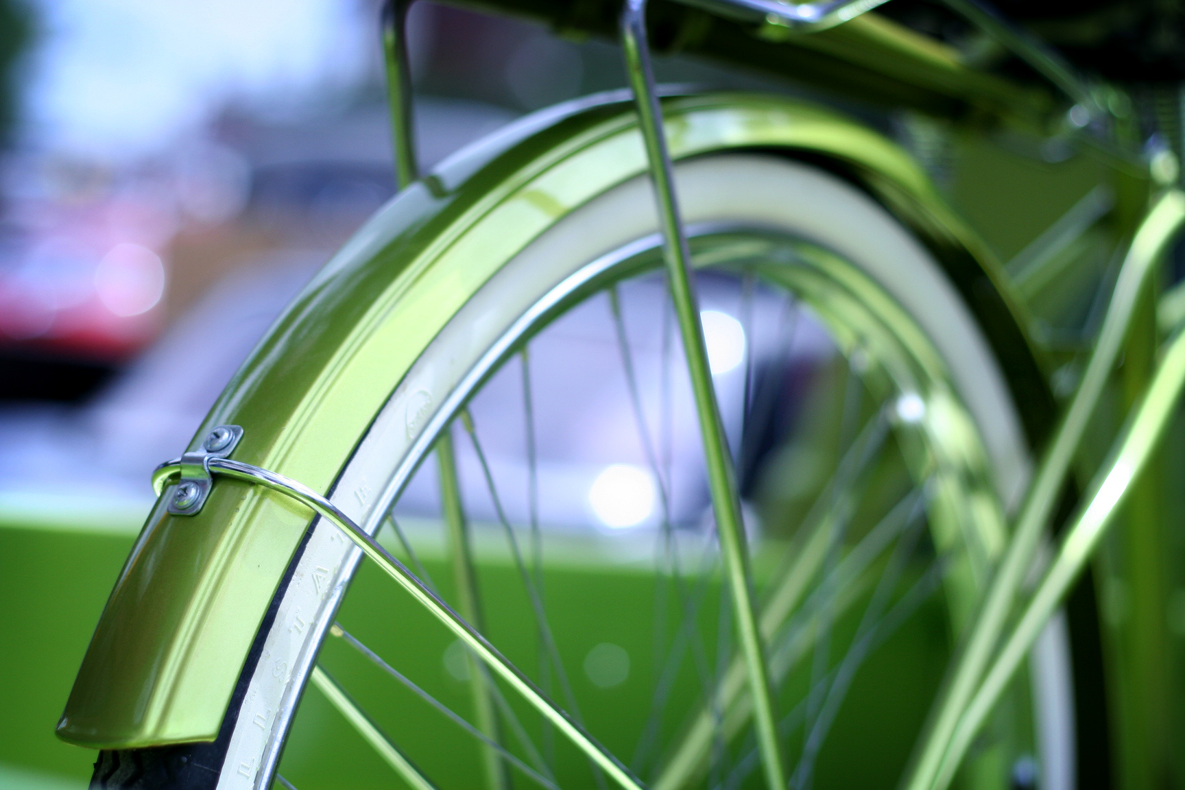 1960s bicycle